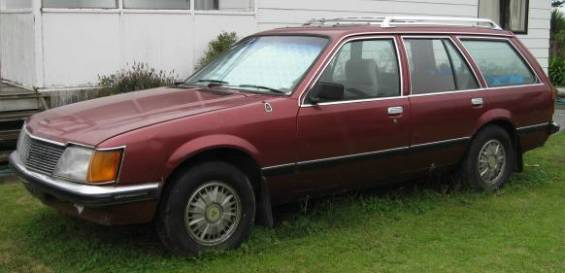 1981–1984 Holden VH Commodore SL/X station wagon.